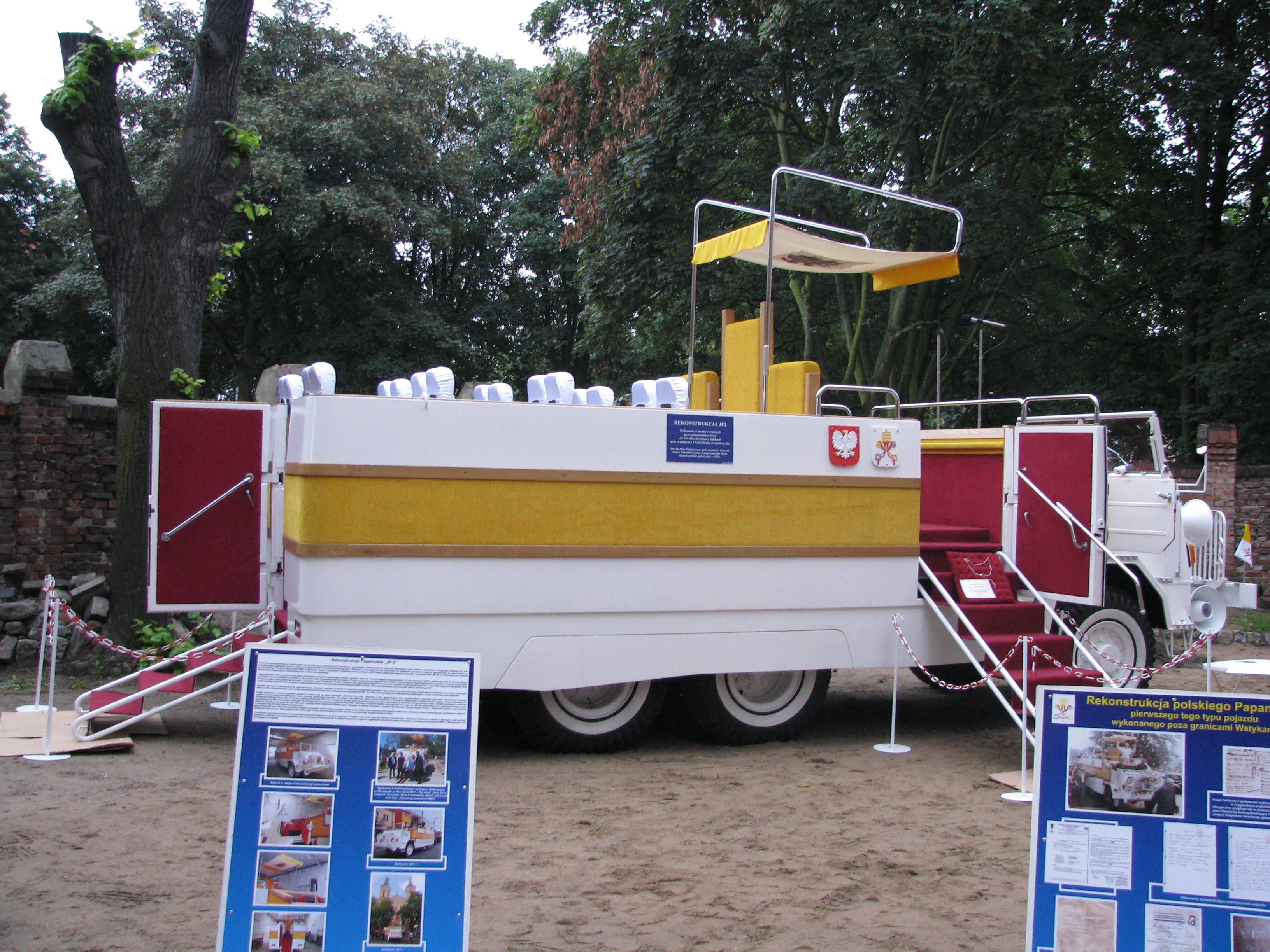 Reconstruction of Polish Popemobile, the first such type of vehicle made outside the Vatican.